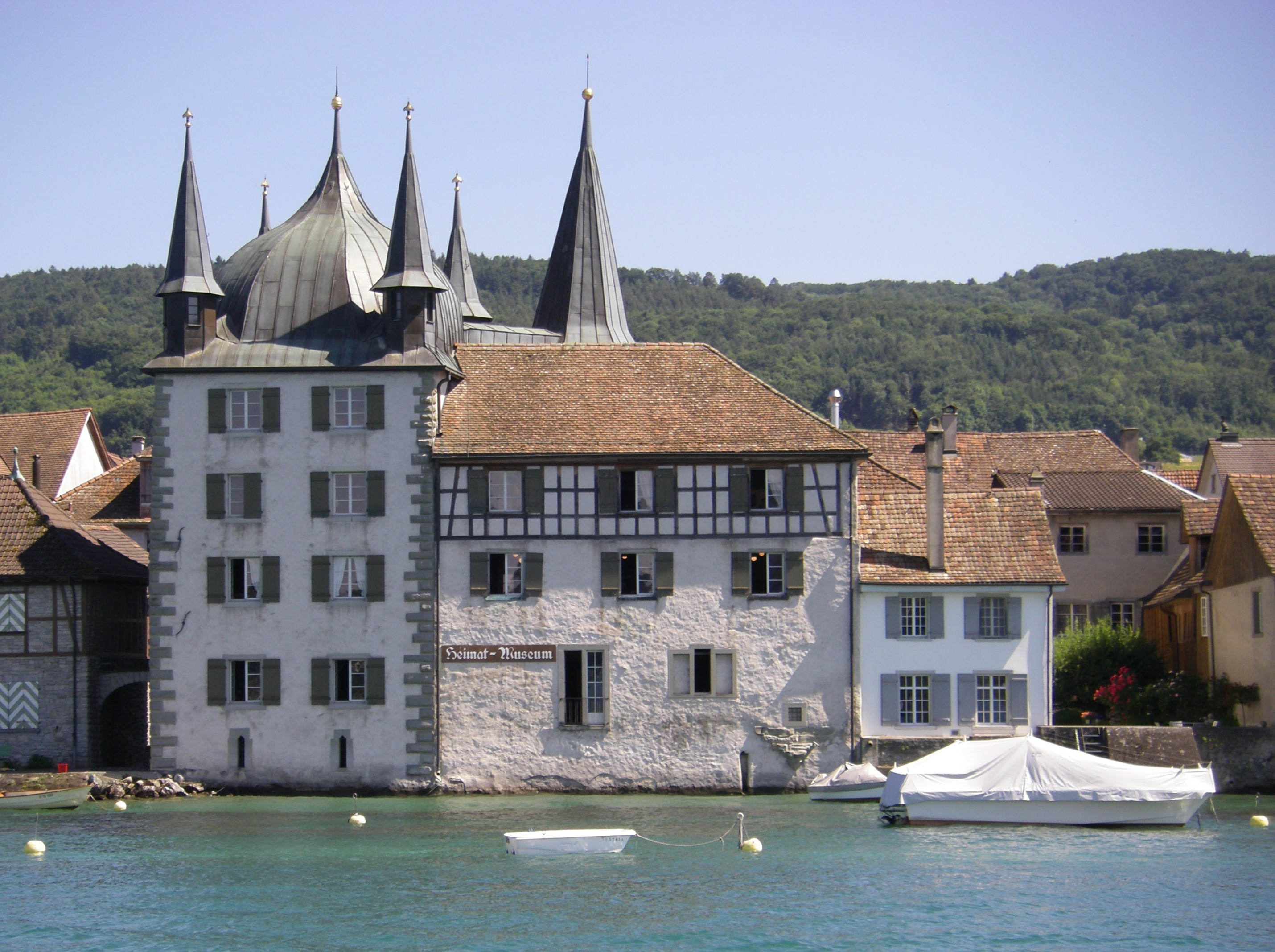 Lakeside view of the "Turmhof" building in Steckborn (Switzerland) on the Untersee, a part of Lake Constance. Built c. 1280 by Albrecht von Ramstein, abbot of the Benedictine monastery on Reichenau Island.